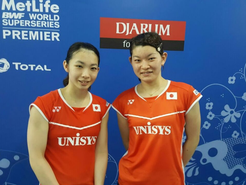 Misaki Matsutomo (left) and Ayaka Takahashi during a press conference at 2016 Indonesia Open Super Series Premier